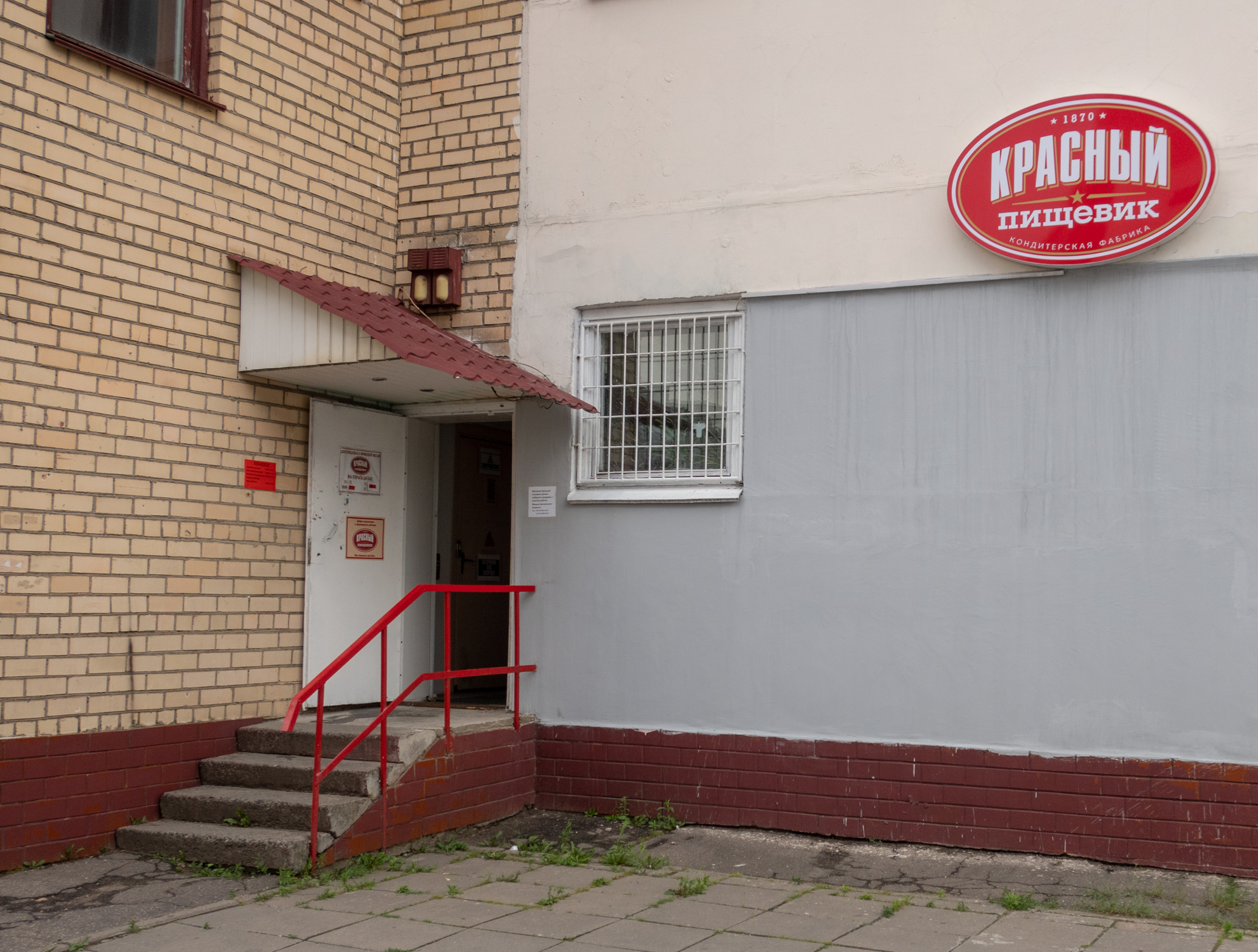 "Krasny pischevik" confectionery shop (Minsk, Belarus)